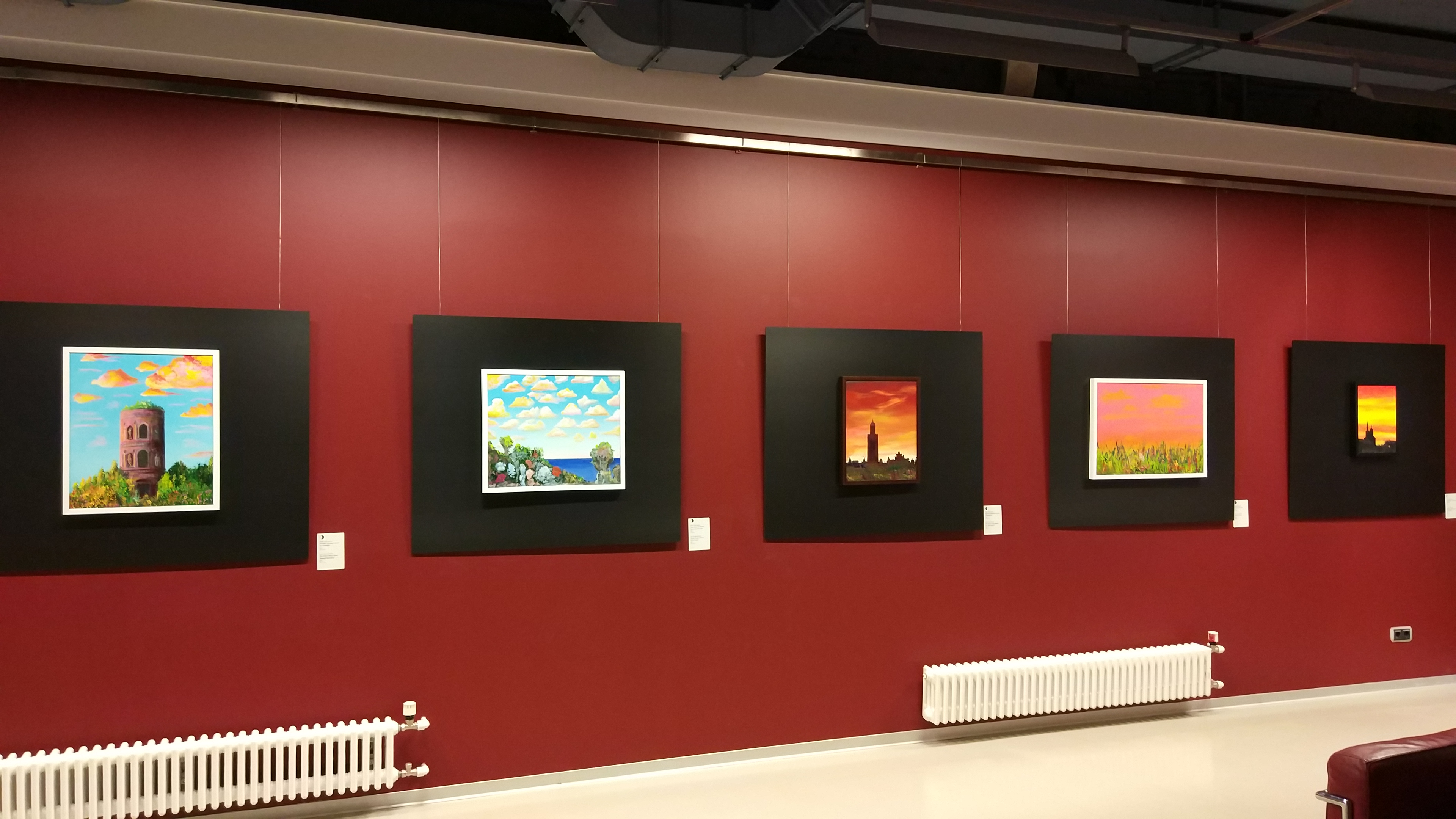 Pictures of Boris Grebenshchikov at the Erarta Museum